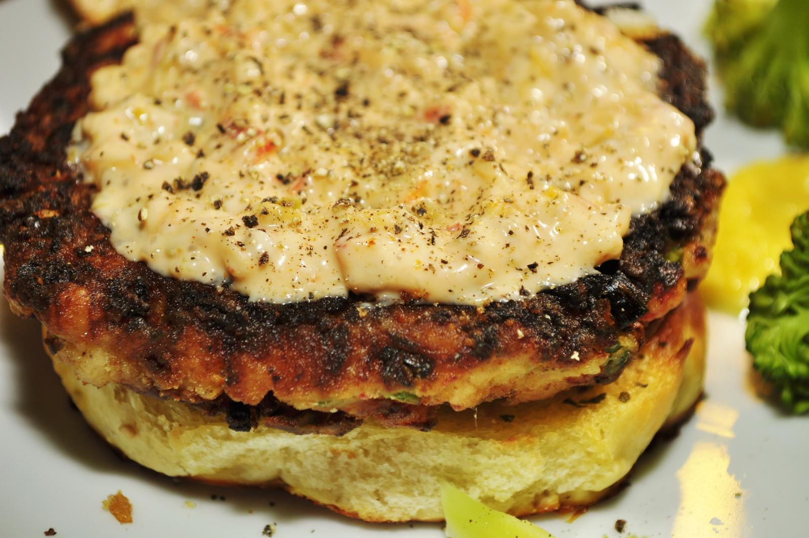 A crab cake sandwich